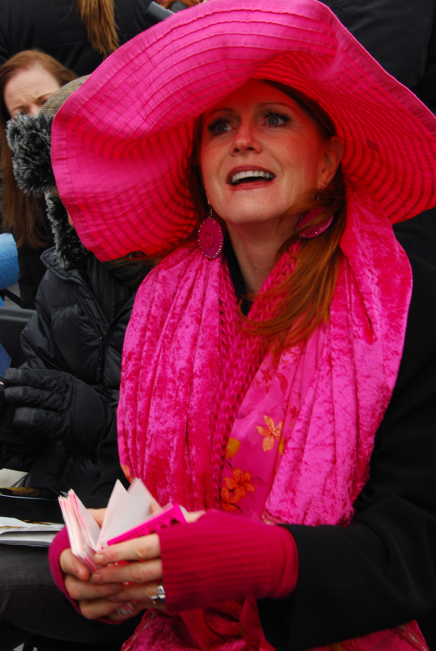 Jodie Evans, Co-Founder of CODEPINK: Women for Peace